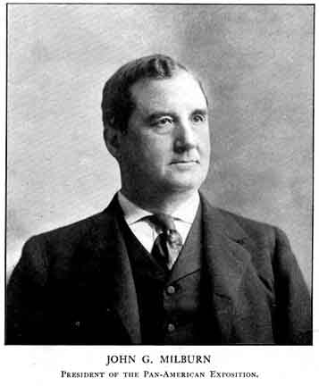 Photograph of John G. Milburn, 1901.